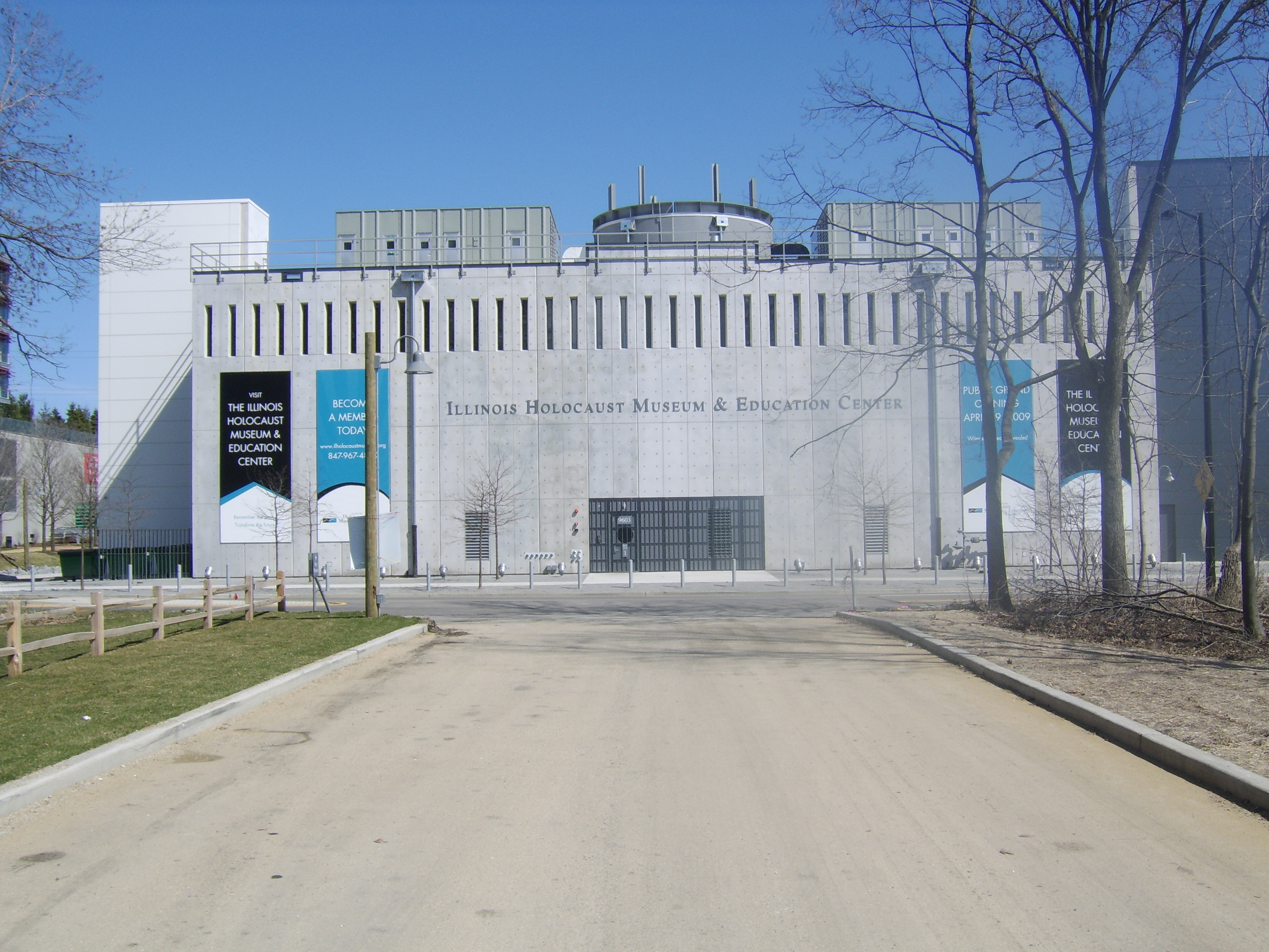 Illinois Holocaust Museum and Education Center